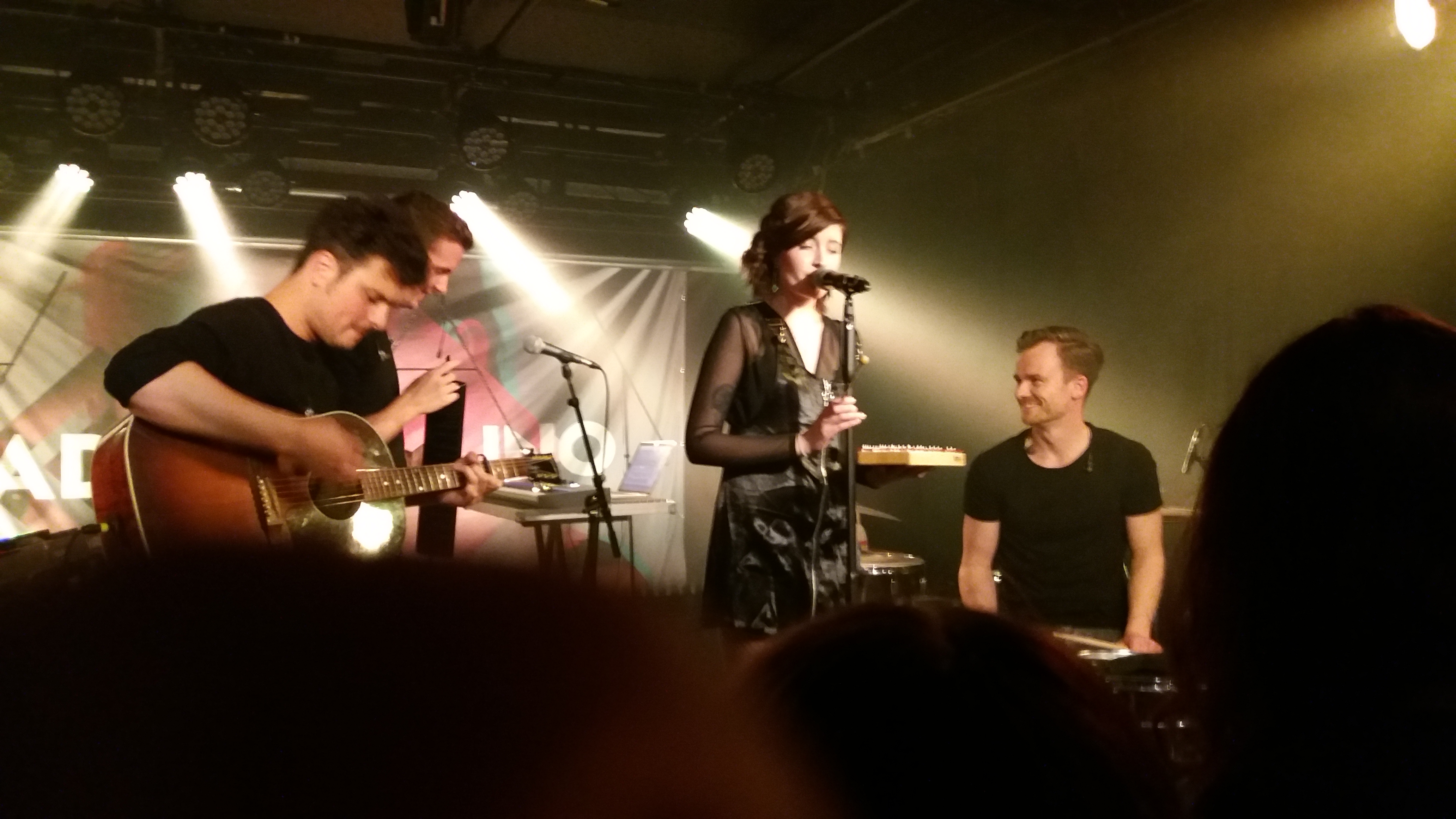 Madeline Juno at Kammgarn 2017.